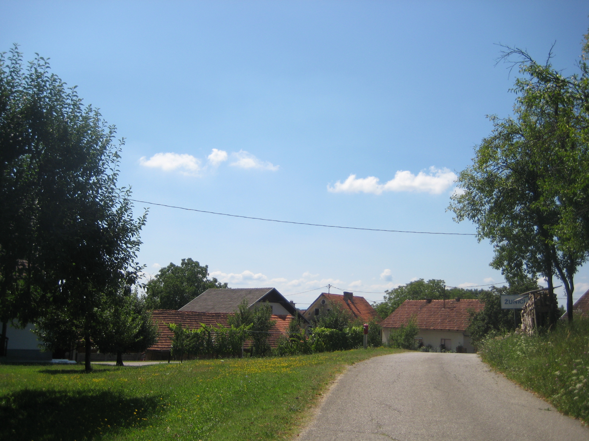 Žuniči, village in Slovenia